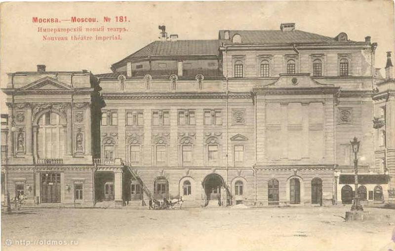 A 1901 postcard with a picture of the Императорский Новый Театр in Moscow